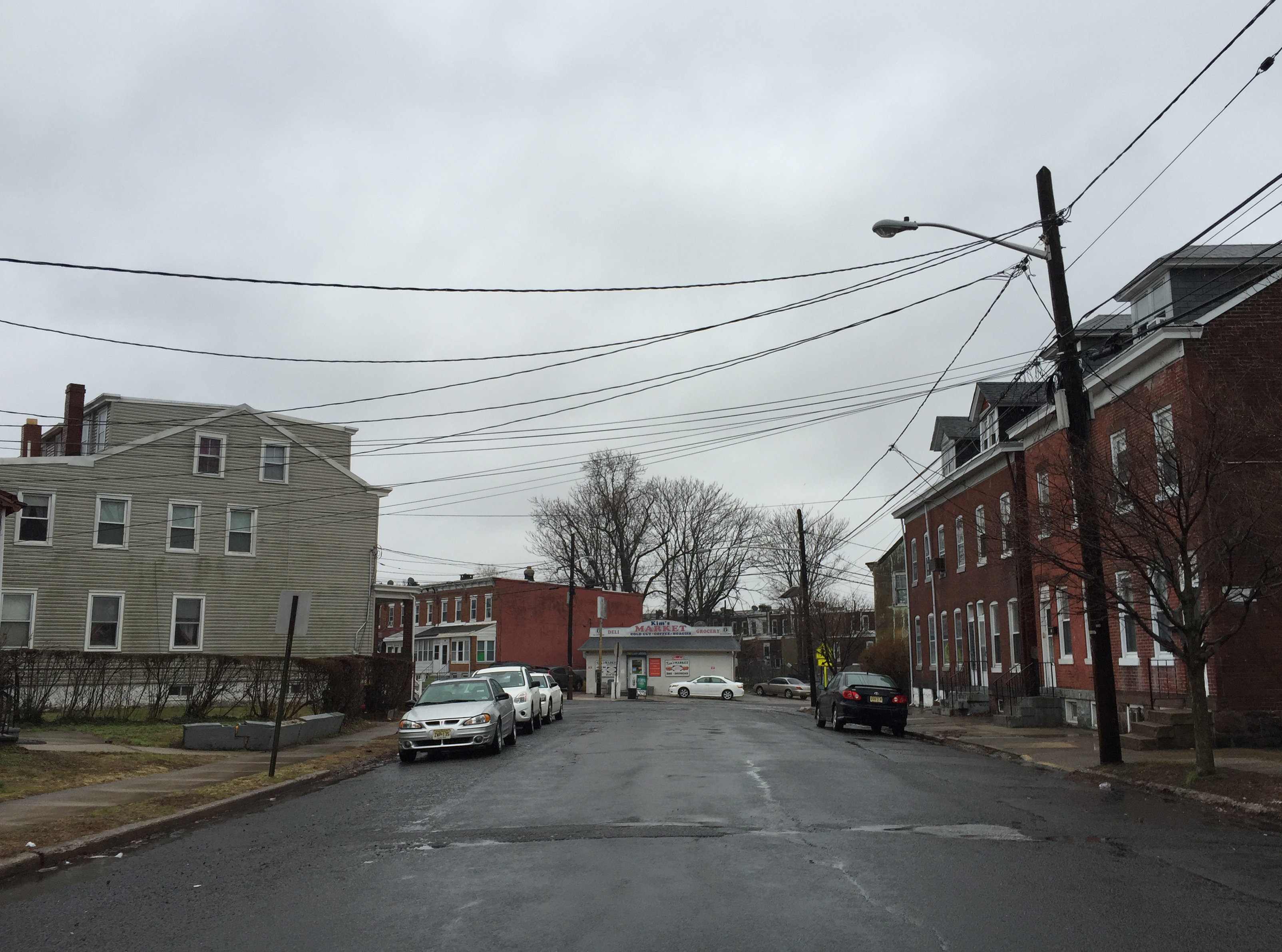 View south along Second Street near Cliff Street in the South Trenton section of Trenton, New Jersey